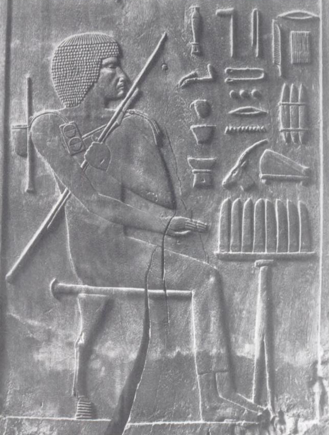 Relief of Hesy-Ra from his Mastaba, shown seated in front of his offering table of possessions, food for sustenance in the Afterlife. Note also the scribal equipment on his body.